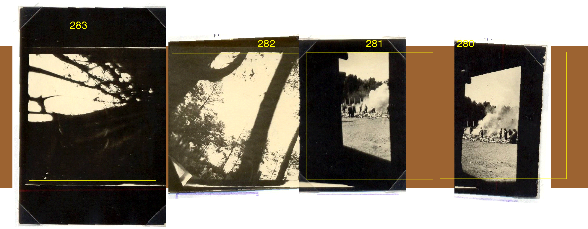 A reconstruction of the negative strip that the Auschwitz resistance had made on 120 film.